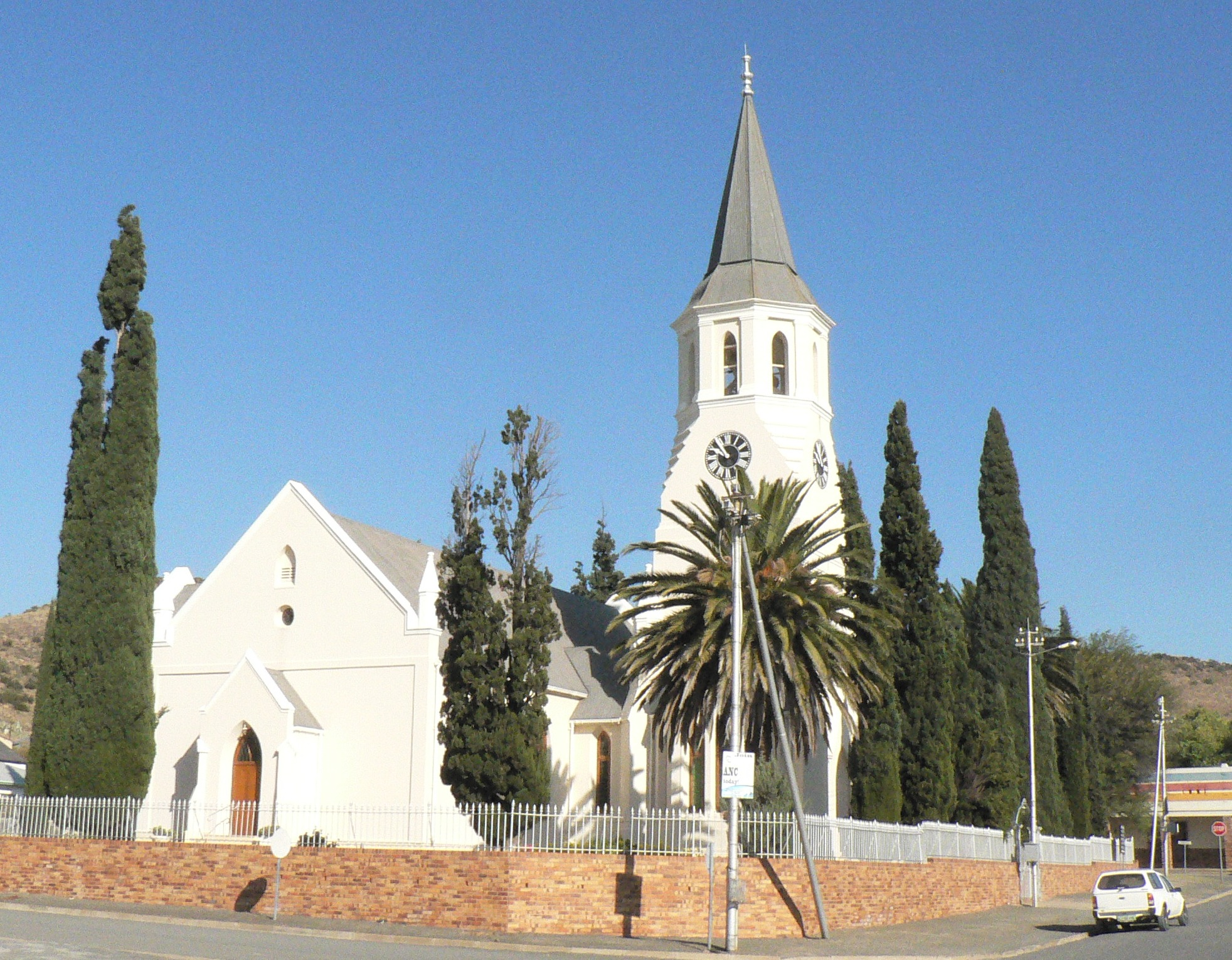 This media shows a South African Protected Site with SAHRA file reference 9/2/100/0002-070.